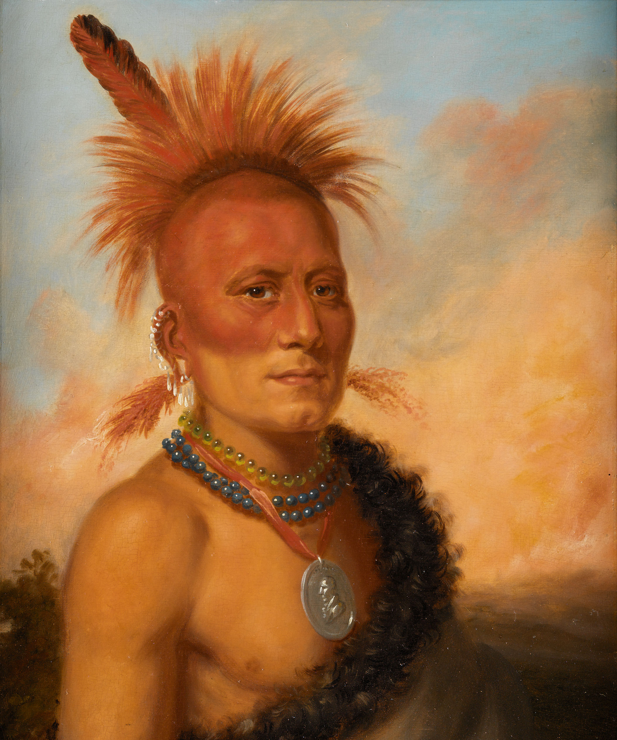 Pawnee chief wearing a ’roach’ made from coloured animal hair and eaglefeathers.